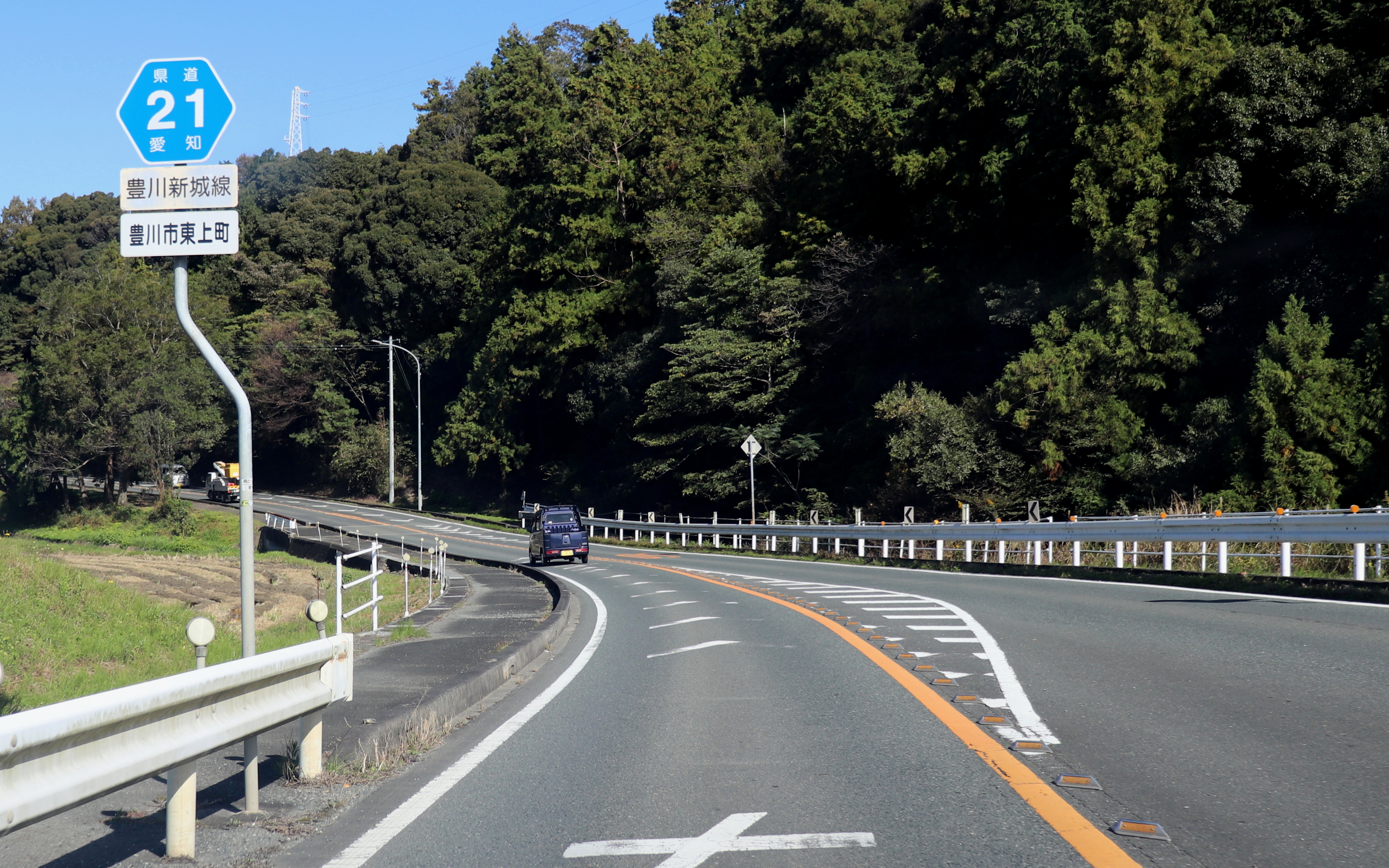 Aichi Prefectural Road Route 21 in Tojocho, Toyokawa, Aichi Prefecture, Japan.